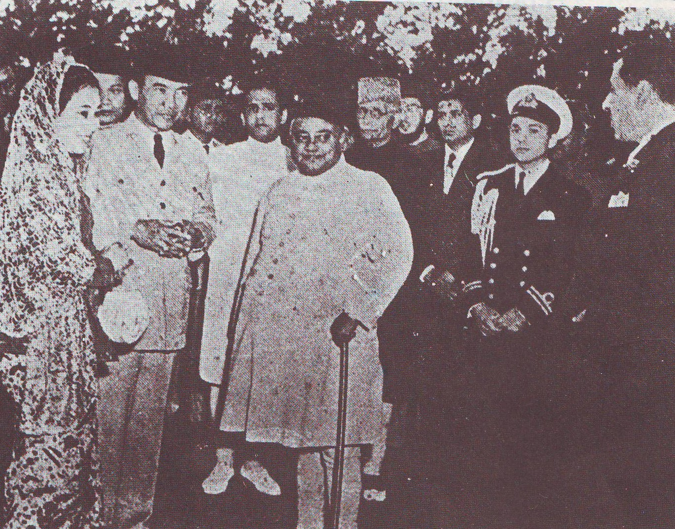 President Soekarno and his wife, Fatmawati, meets Governor-General of Pakistan, Sir Khawaja Nazimuddin, in his visit to the country on January 1950.